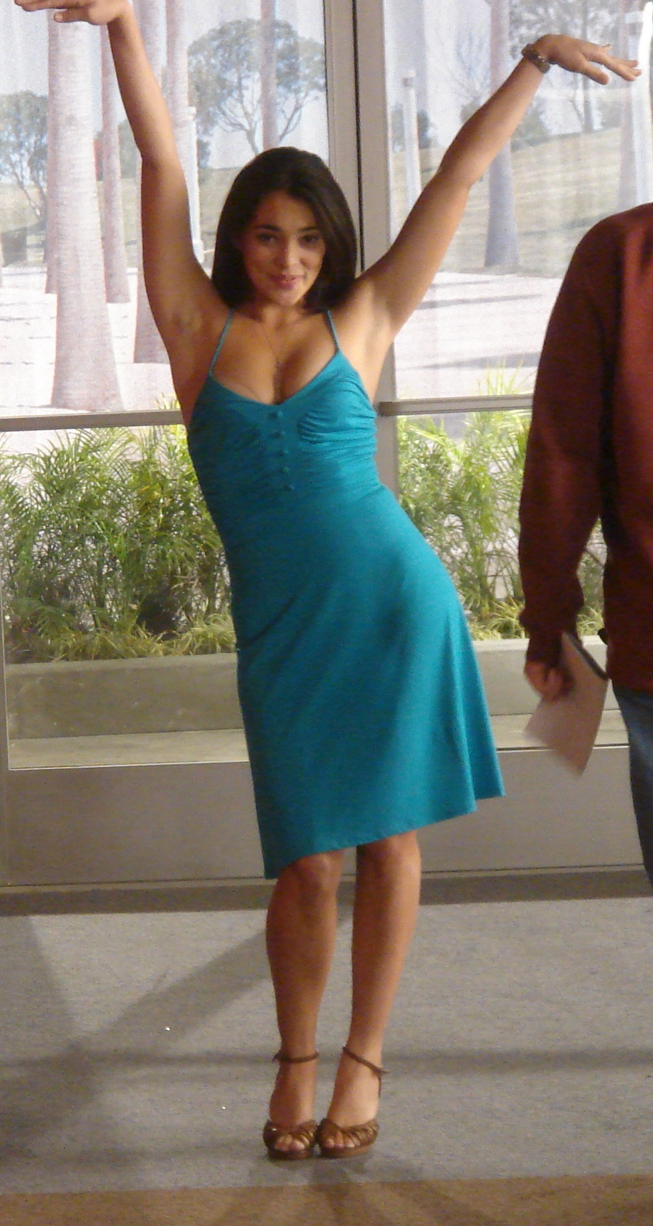 Cropped image of the actress Natalie Martinez.